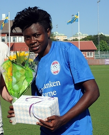 Cameroon footballer Gaëlle Enganamouit